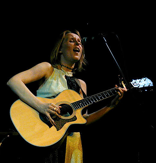 Jolie Rickman performing in Syracuse, NY at Happy Endings for the release of her cd, "Suffer to be Beautiful", in 2000